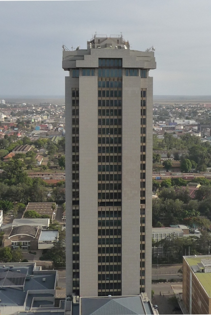 Times Tower, Nairobi